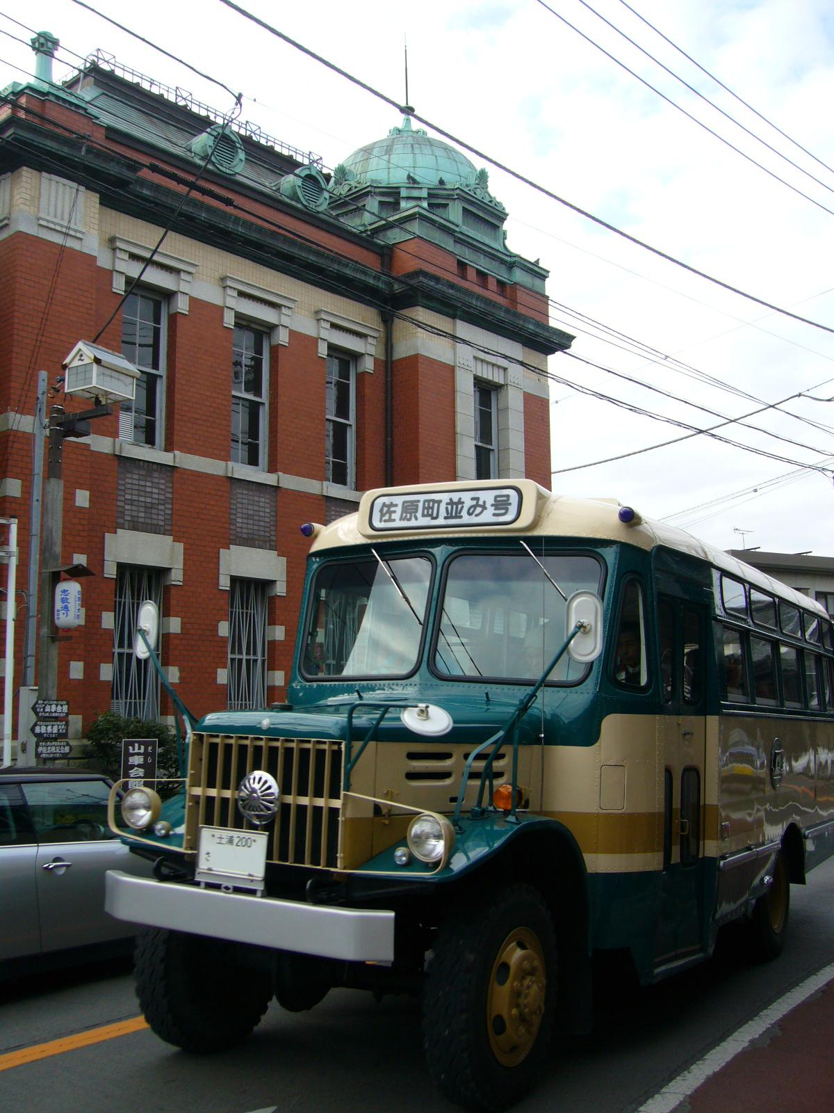 Old bus & former sawara branch of the mitsubishi bank,katori-city,japan